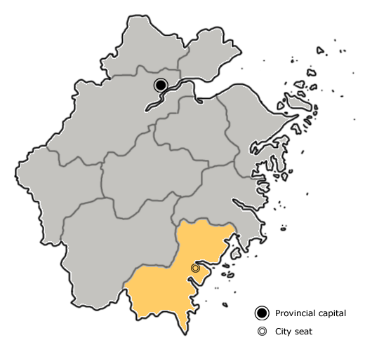 The prefecture-level city of Wenzhou is highlighted on this map of Zhejiang province, People's Republic of China.